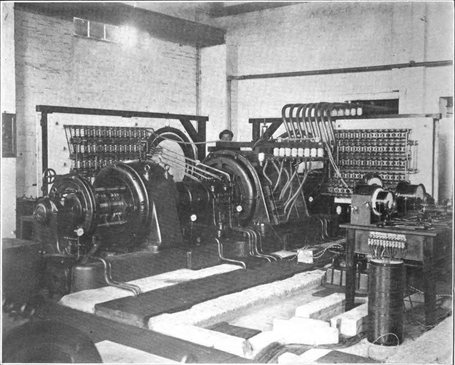 100 kW Goldschmidt alternator at Eilvese, Germany. The Goldschmidt alternator, invented in 1908 by Rudolph Goldschmidt, was a rotating machine that generated high frequency alternating current, used as a radio transmitter from 1910 until about 1930. The Goldschmidt machine generates high frequencies without requiring excessive rotor speeds by using the rotor as a frequency multiplier as well as an AC generator. Tuned circuits called "reflector" circuits, attached to the stator and rotor (the capacitor banks against the walls) cause the machine to produce power at a harmonic (multiple) of the alternator frequency. In this machine, the 250 HP 220 VDC drive motor (left) turns the 3 ft diameter, 5 ton rotor (right) at 4000 RPM. The rotor has 360 narrow magnetic poles in its periphery, and therefore the fundamental frequency produced by the rotor is 24 kHz. The complicated reflector circuits cause the rotor to generate an alternating current at 4 times the fundamental frequency, 96 kHz, which is applied to the antenna through a transformer. The station transmitted text messages in Morse code, by the operator switching the DC power to the rotor on and off with a telegraph key. The machine was used for transatlantic wireless telegraphy traffic, exchanging messages with a similar machine in Tuckerton, New Jersey, USA. Caption: Goldschmidt 100 K.W. radio frequency alternator